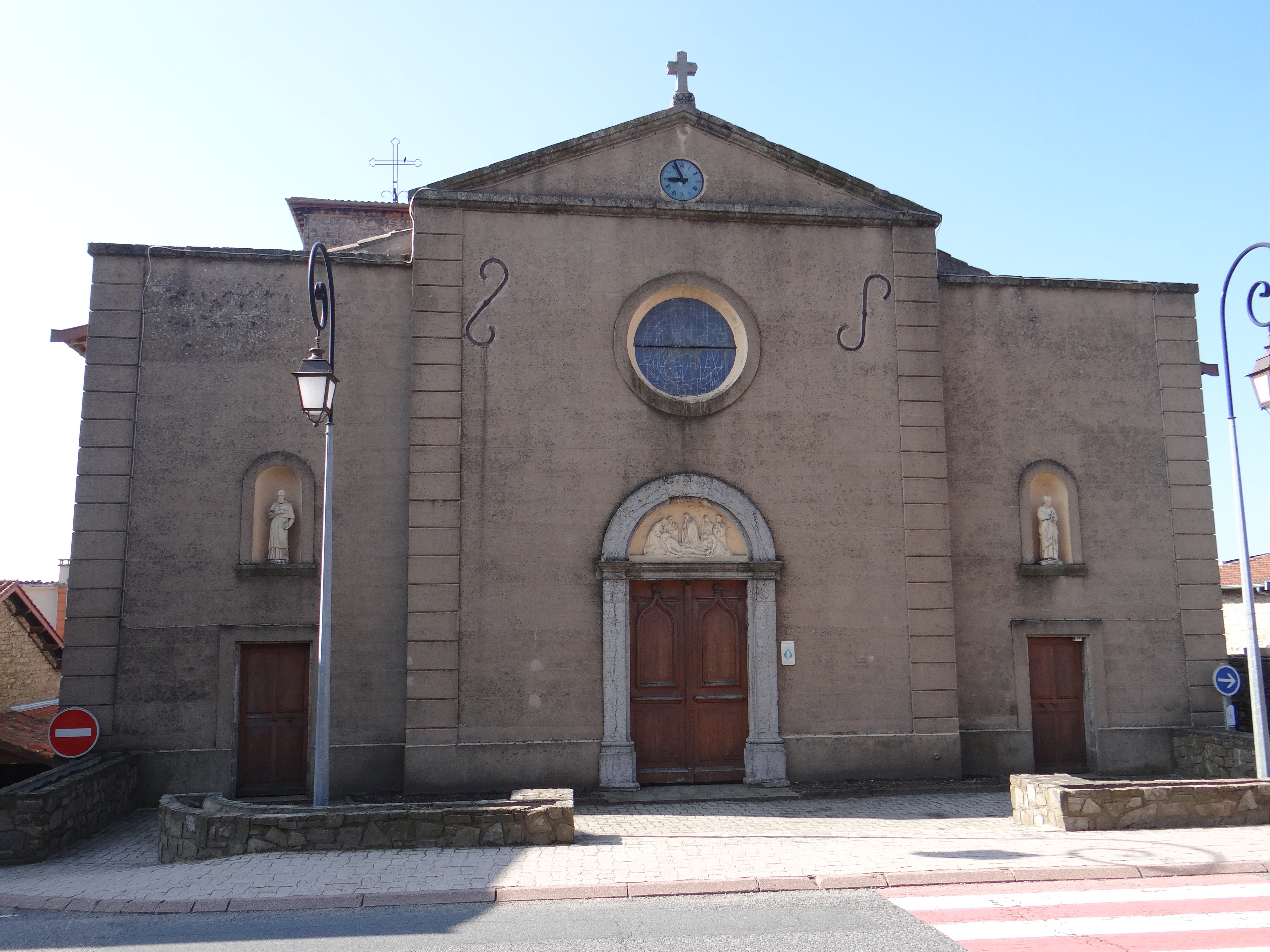 St. John the Apostle Church, Duerne, Rhone, France